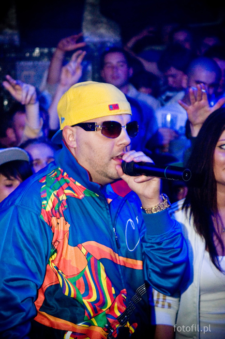 Polish rapper Donguralesko, 2009